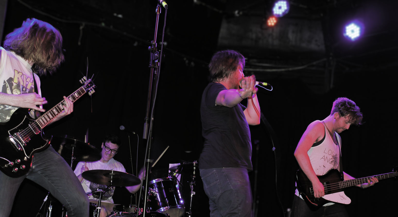 Whitemare play live.